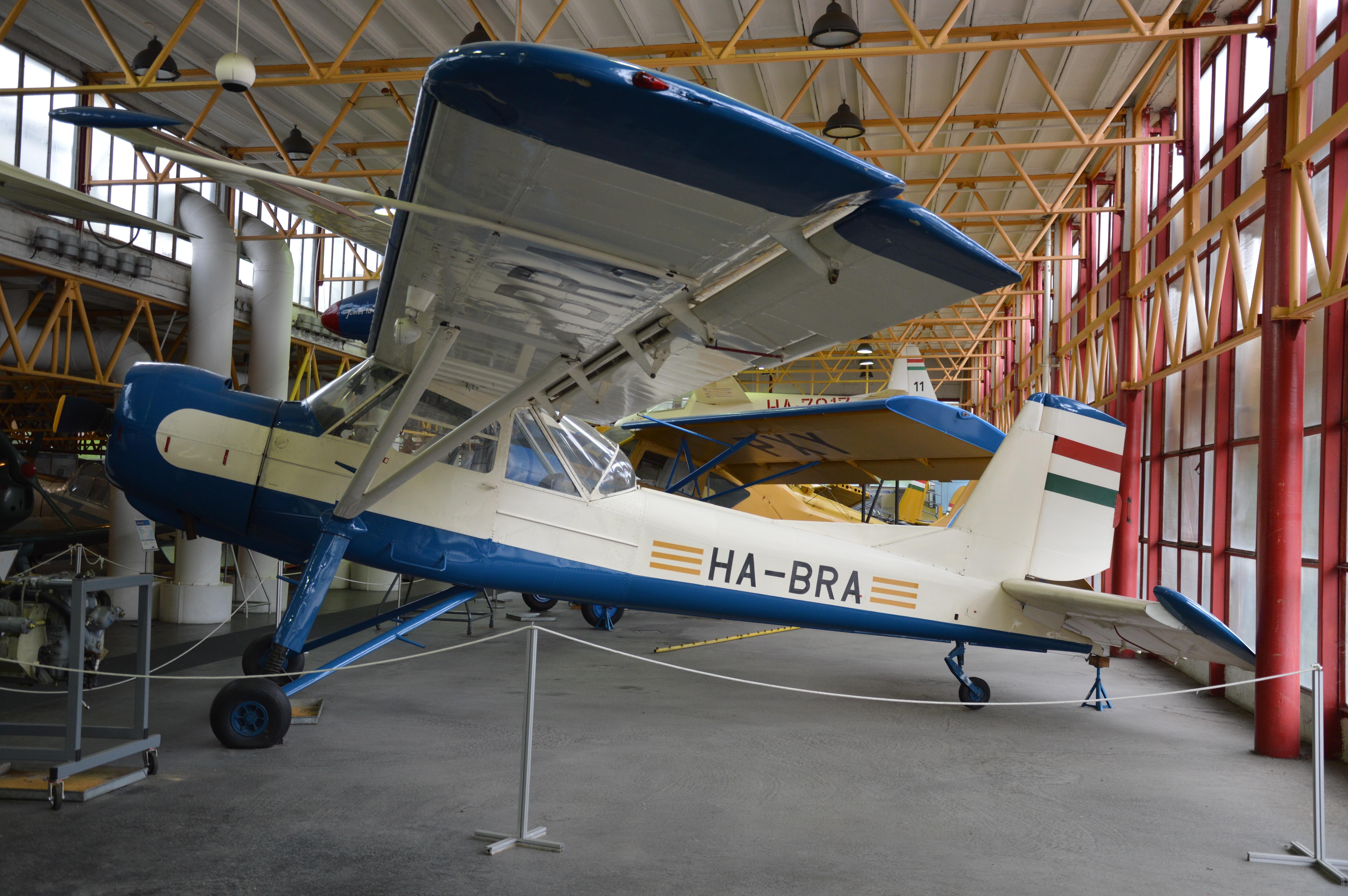 Aero L-60 Brigadyr utility aircraft (reg. HA-BRA) on display at the Hungarian Transport Museum, Budapest.